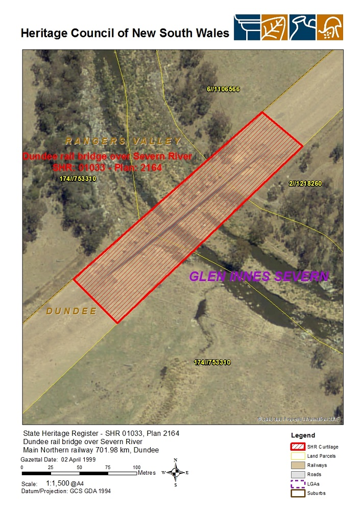 Severn River railway bridge, Dundee: SHR Plan 2164